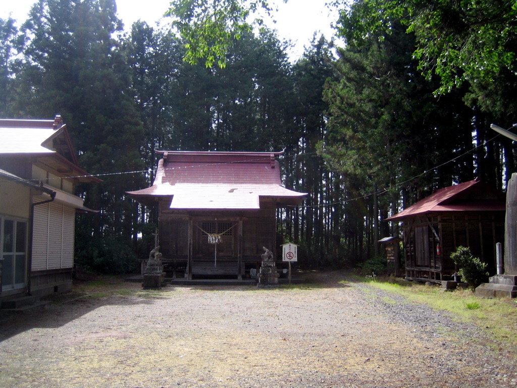 Shiwahime shrine at Kurihara City.